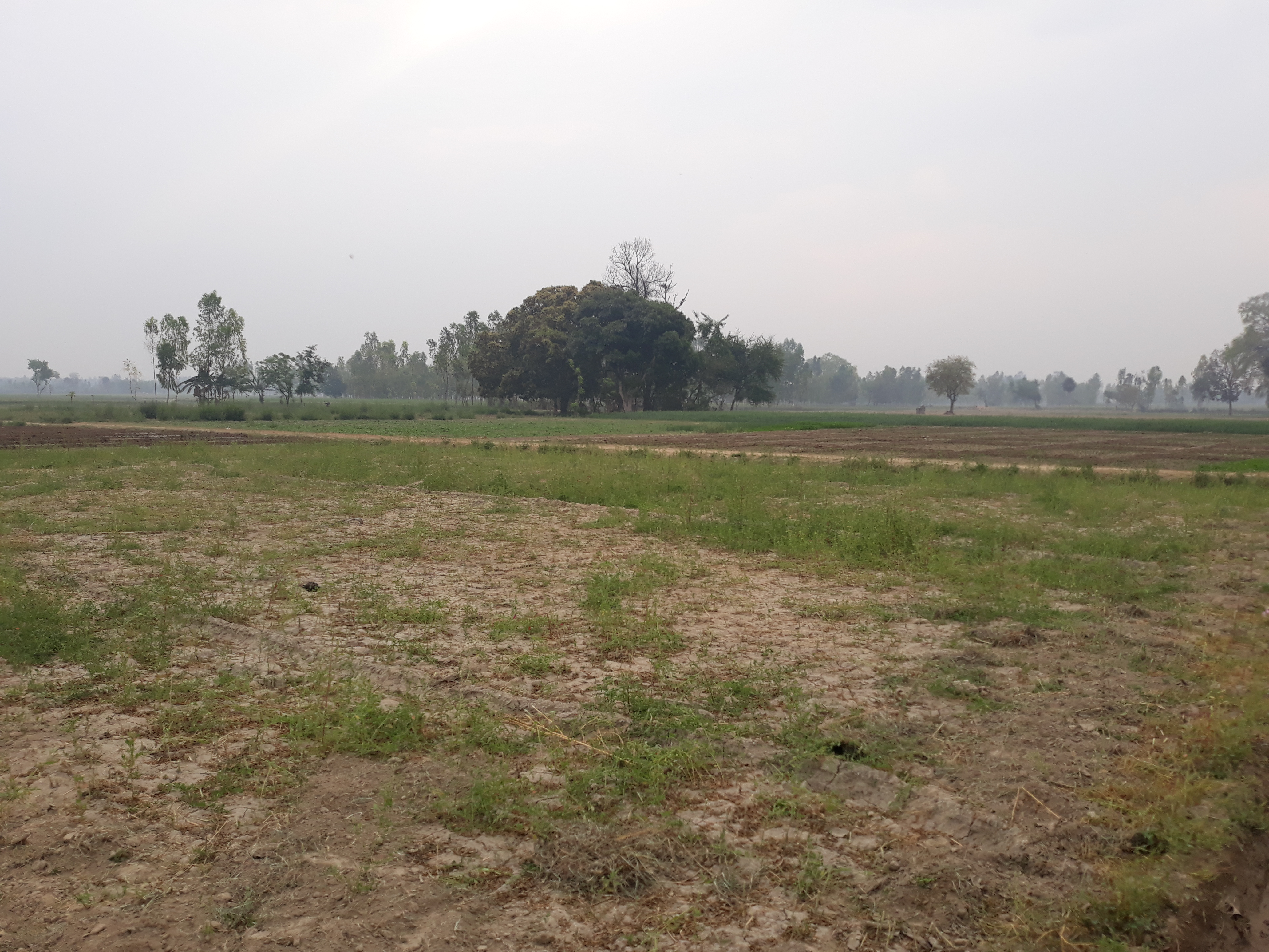 Photo of Indian Agricultural Farm